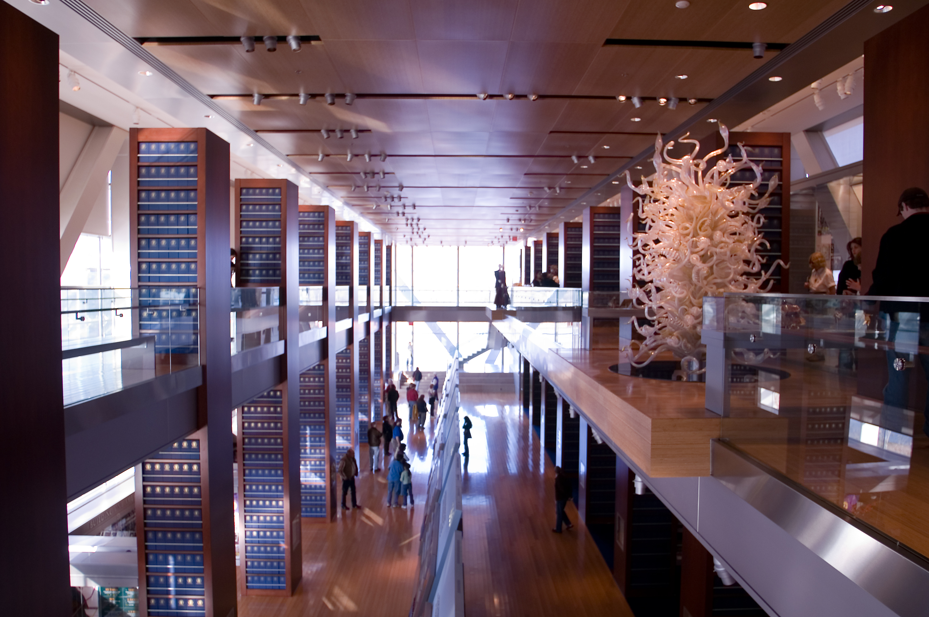 Bill Clinton Presidential Library Interior, Little Rock, Arkansas